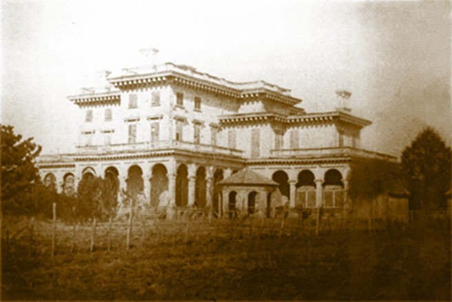 Original title: "Views of Anandale, A Famous Old Times Plantation Homestead." Supplemental: Side and rear view of the mansion at Annandale Plantation in Mannsdale, Madison County, Mississippi. Built from 1857 to 1859 by Jacob Larmour for Margaret Johnstone. Design taken from Plate IV of Minard Lafever's Architectural Instructor, published in 1856. Largely unoccupied after Mrs. Johnstones death in 1880, it burned to the ground on September 9, 1924. A Classical Revival style house was later built at the site.